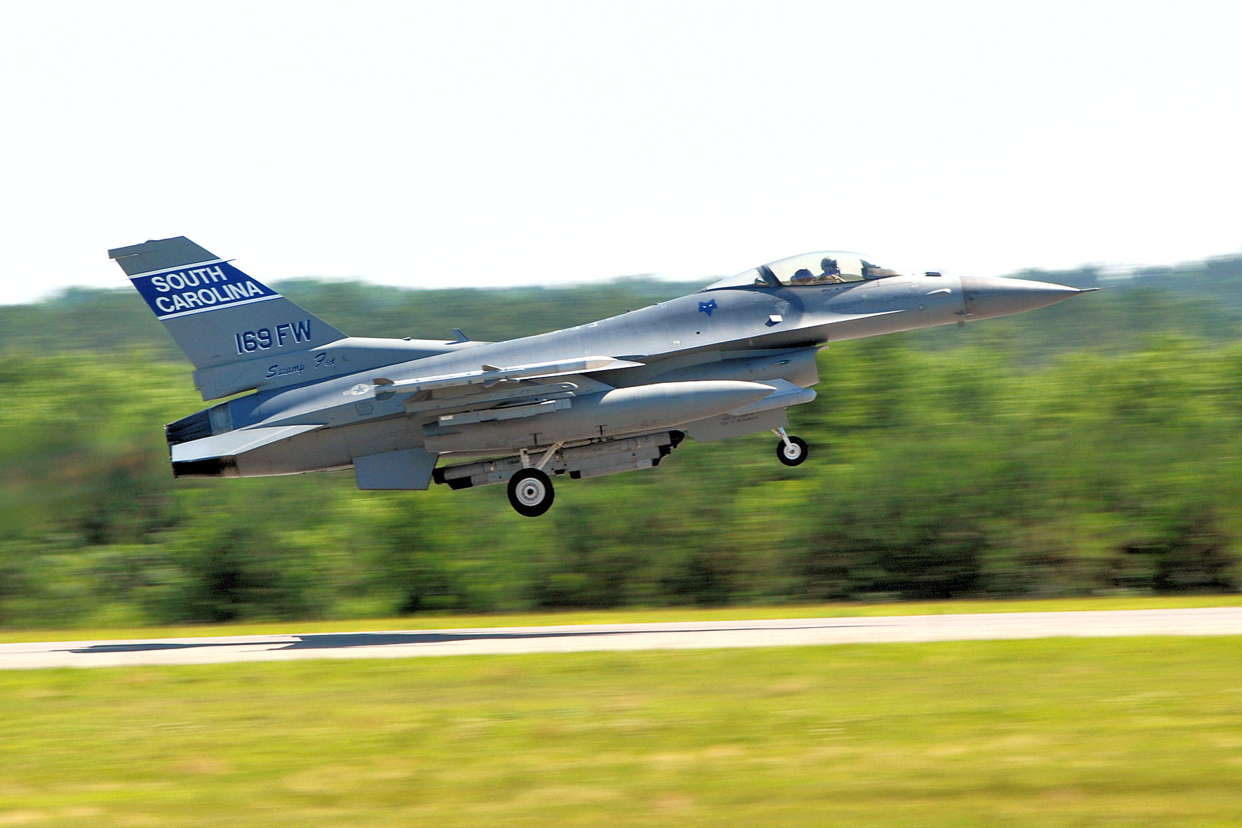 169th Fighter Wing - F-16 takeoff-closeup